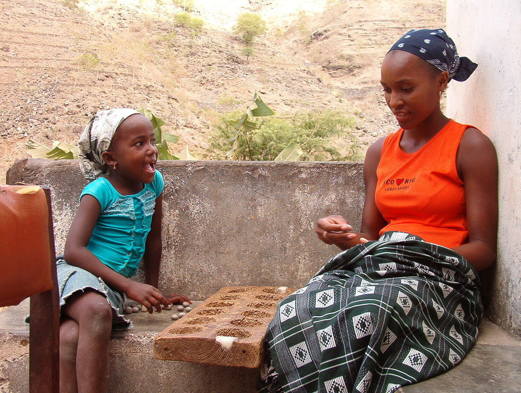 A women and a little girl playing the african game Uril. Santiago island, Cape Verde.